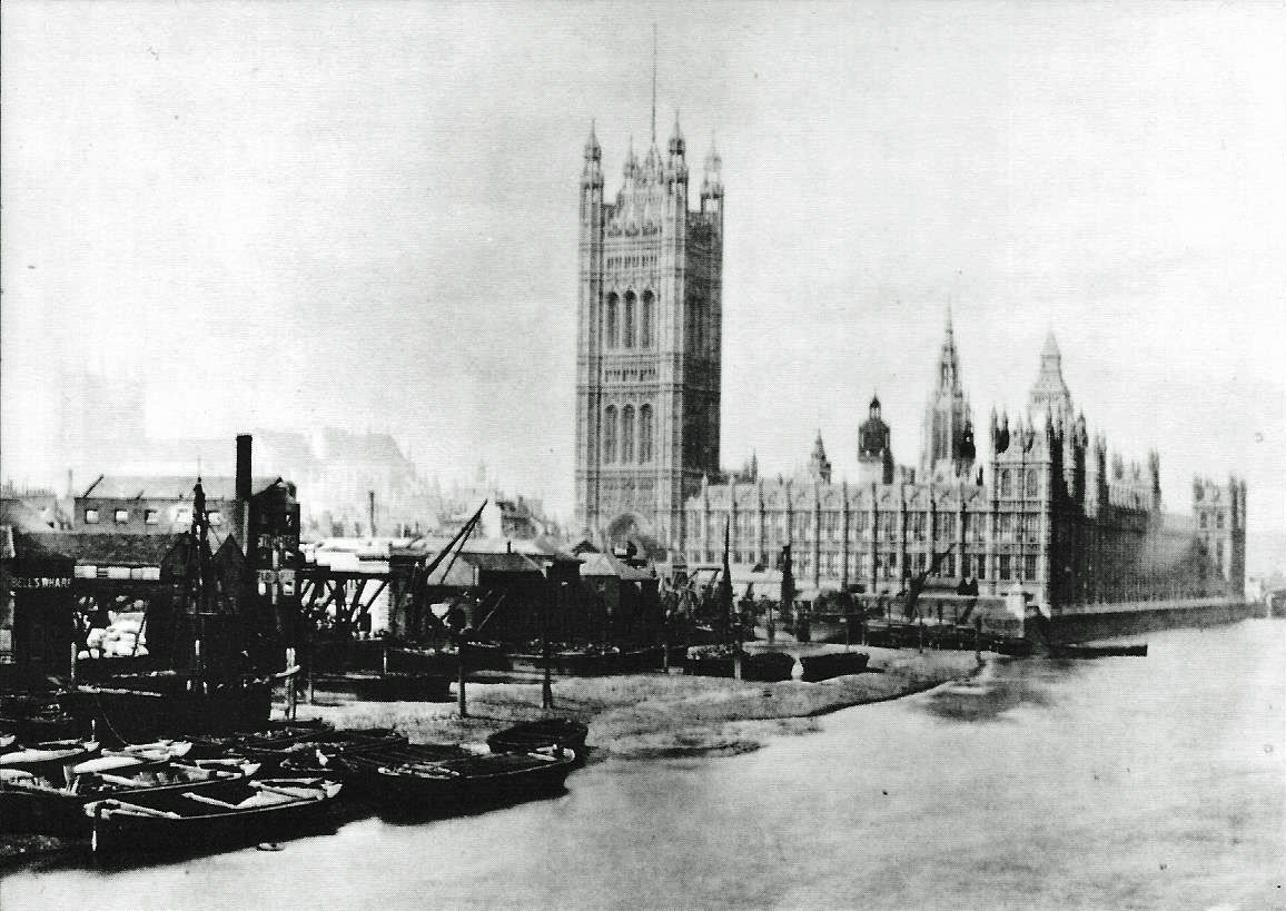 This photograph is by William Strudwick and was taken in 1865. It shows the area between the then newly built Palace of Westminster and the Lambeth Suspension Bridge. The area was cleared of the Industrial units and wharves during the first decade of the 20th century to make way for Victoria Tower Gardens